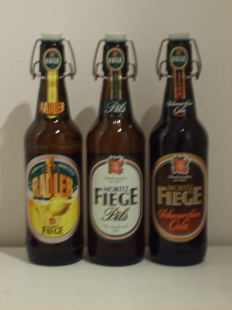 several sorts of "moritz fiege", a german beer